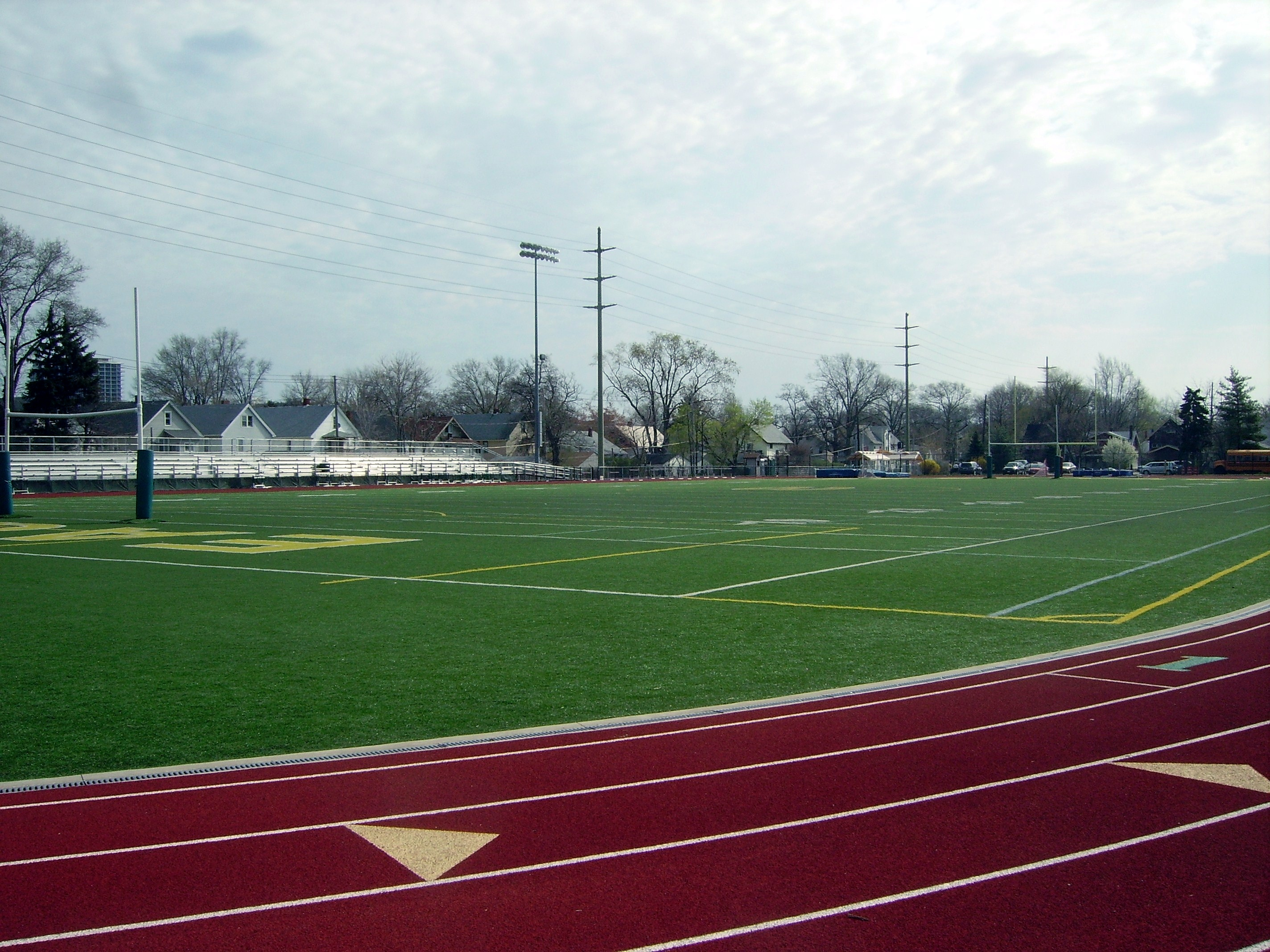 Saint Edward High School, Coughlin Field. Used as practice field for varsity football, it is also used for track, soccer, lacrosse, and rugby (note rugby goals set up in front of football goals).